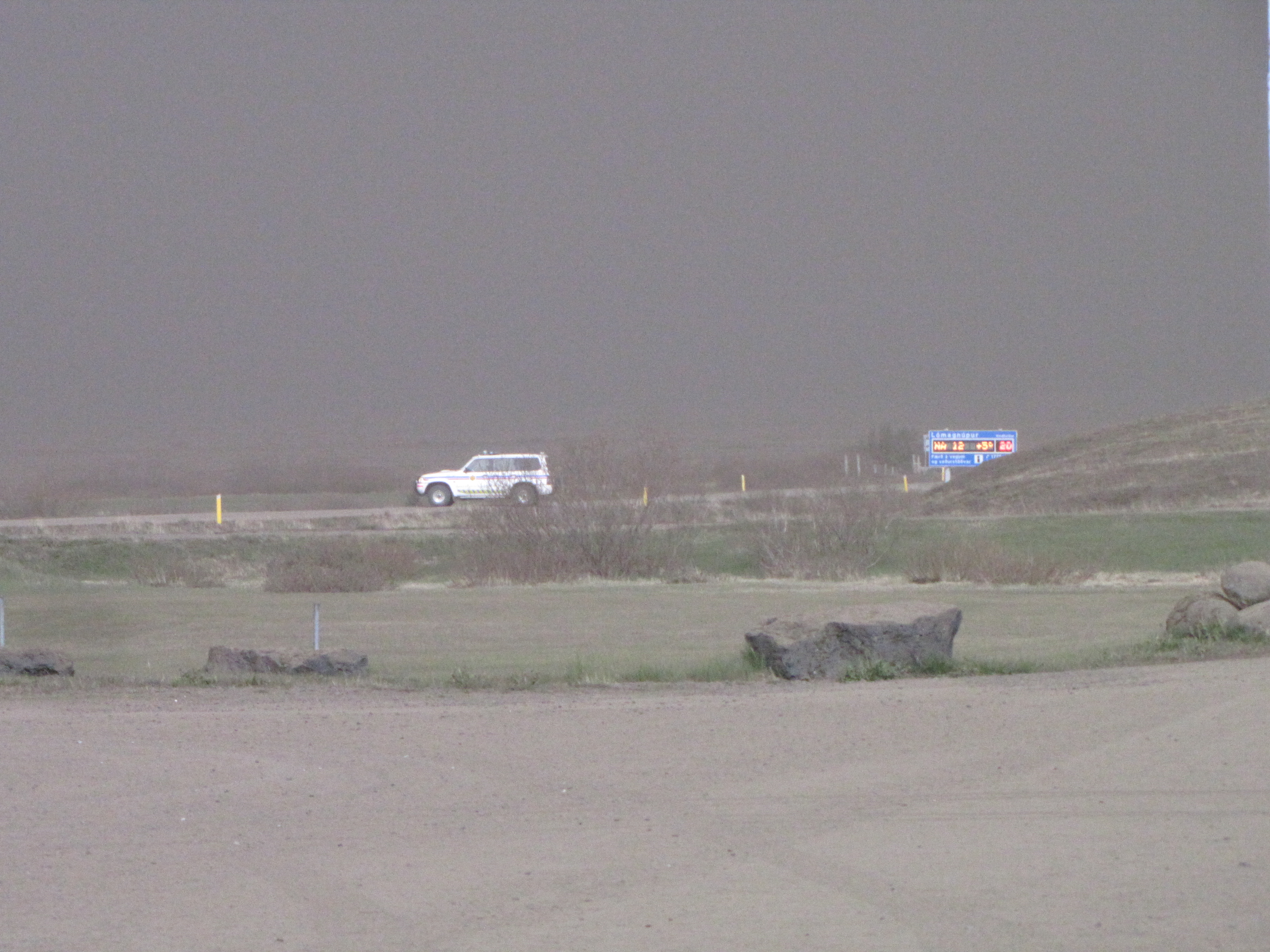 Highway No 1 west bound closed off by the Icelandic police at Skafatfell, the morning after the Grímsvötn 2011 eruption, 22 May.